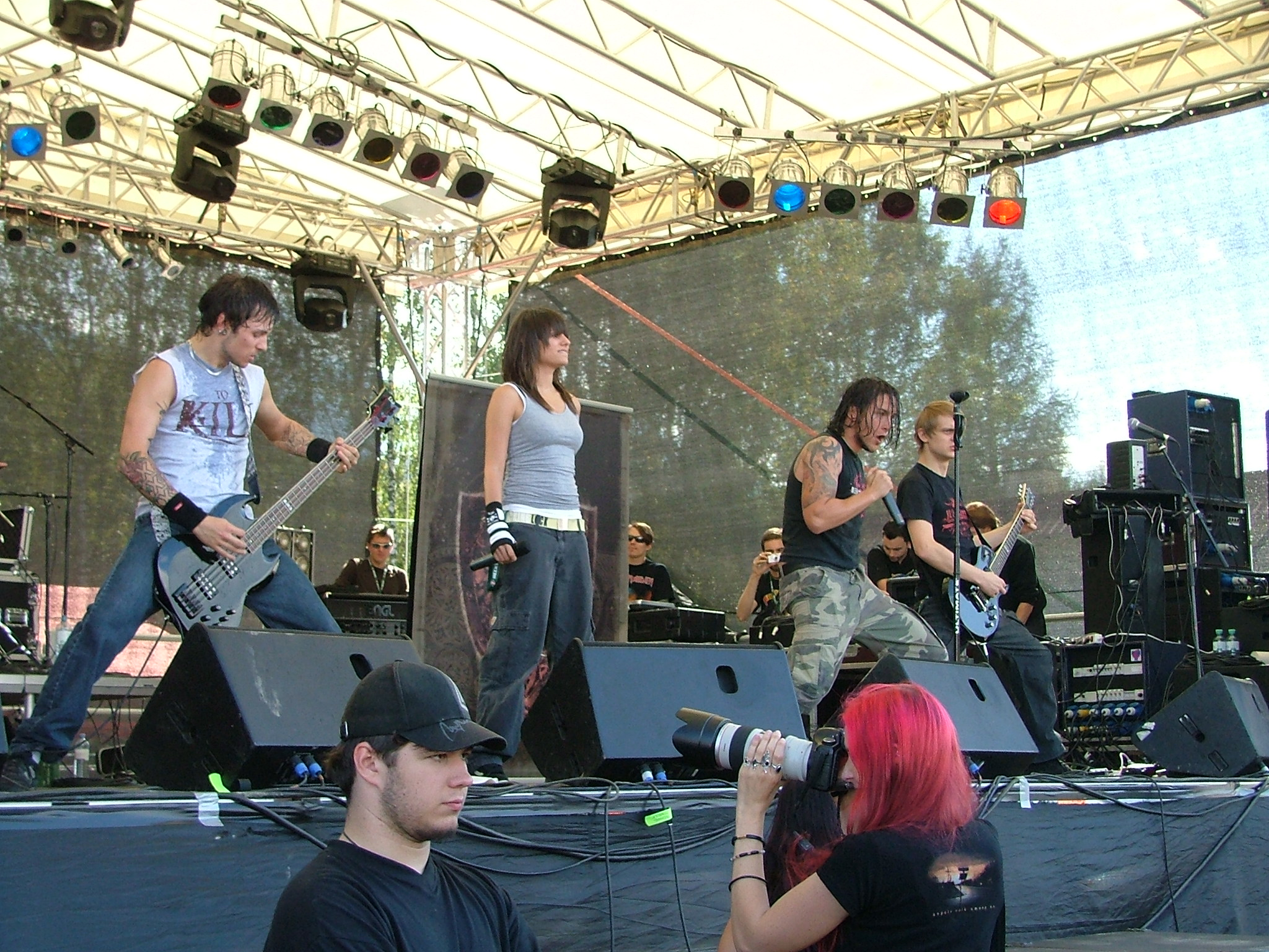 German melodic death metal band Deadlock at 'Rock the Lake' in Finkenstein am Faaker See